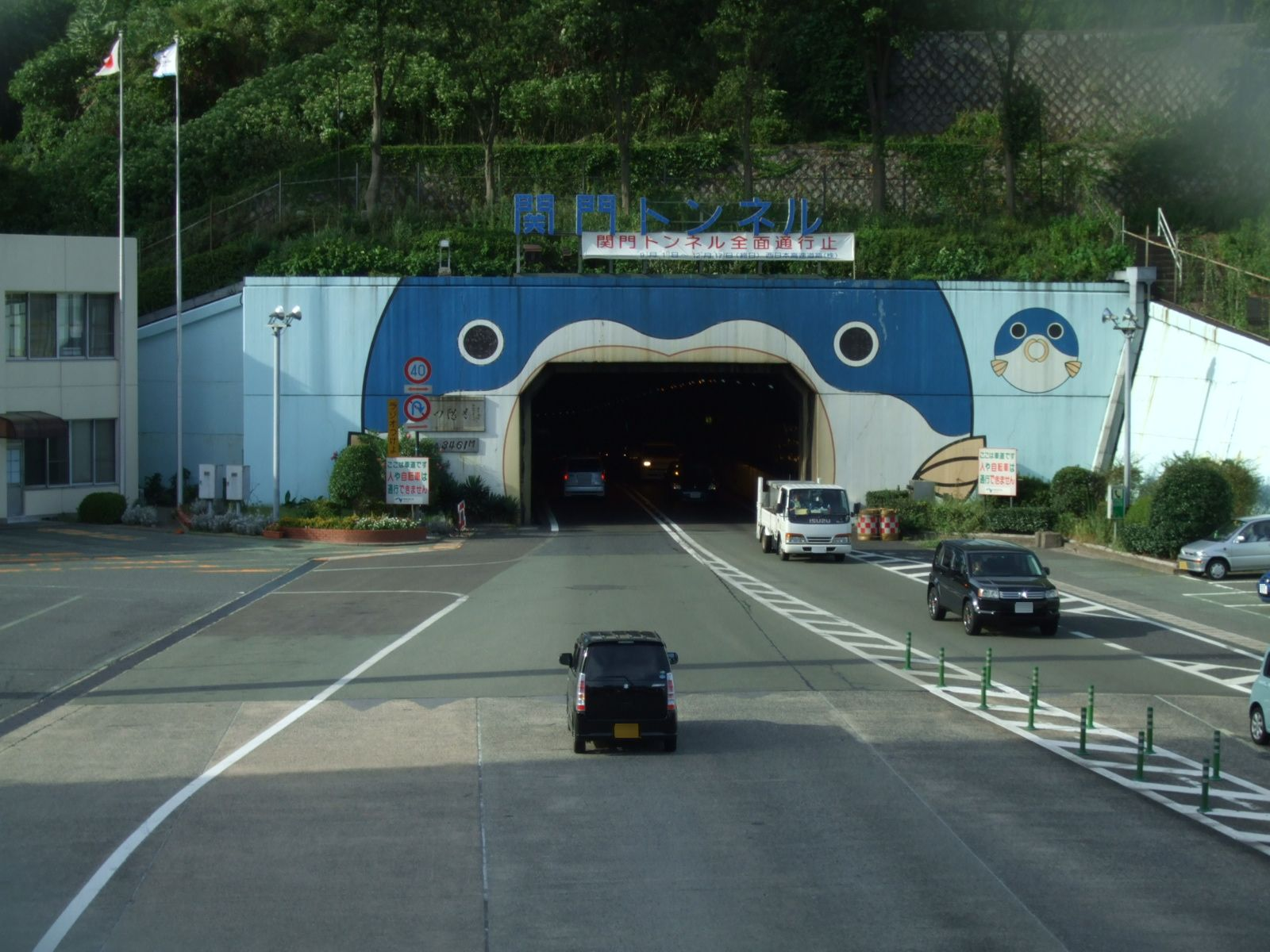 Kanmon Roadway Tunnel Moji side entrance, Route 2, Moji-ku, Kitakyushu, Fukuoka, Japan